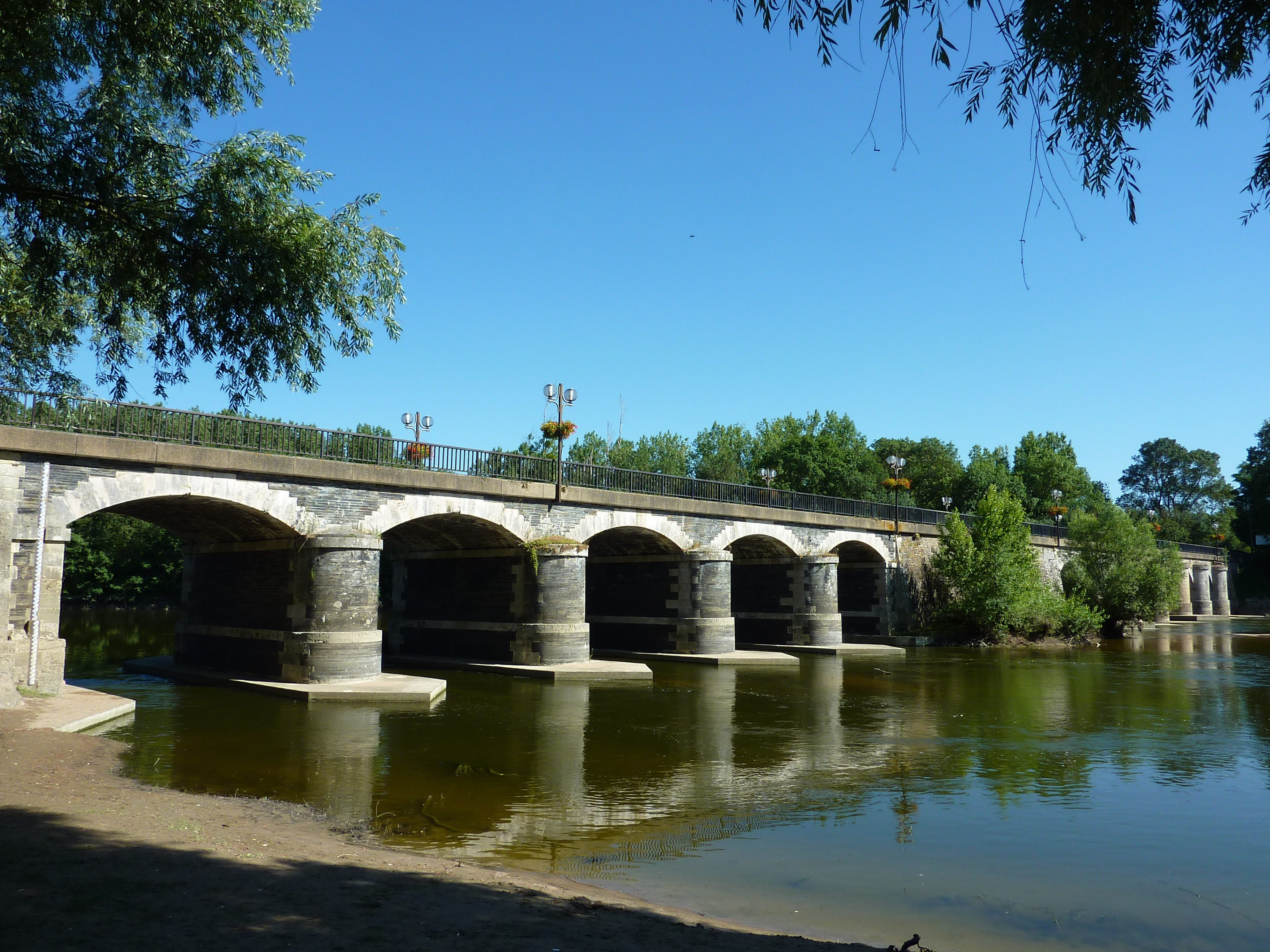 The Louet Bridge in Ponts-de-Cé (Maine-et-Loire))